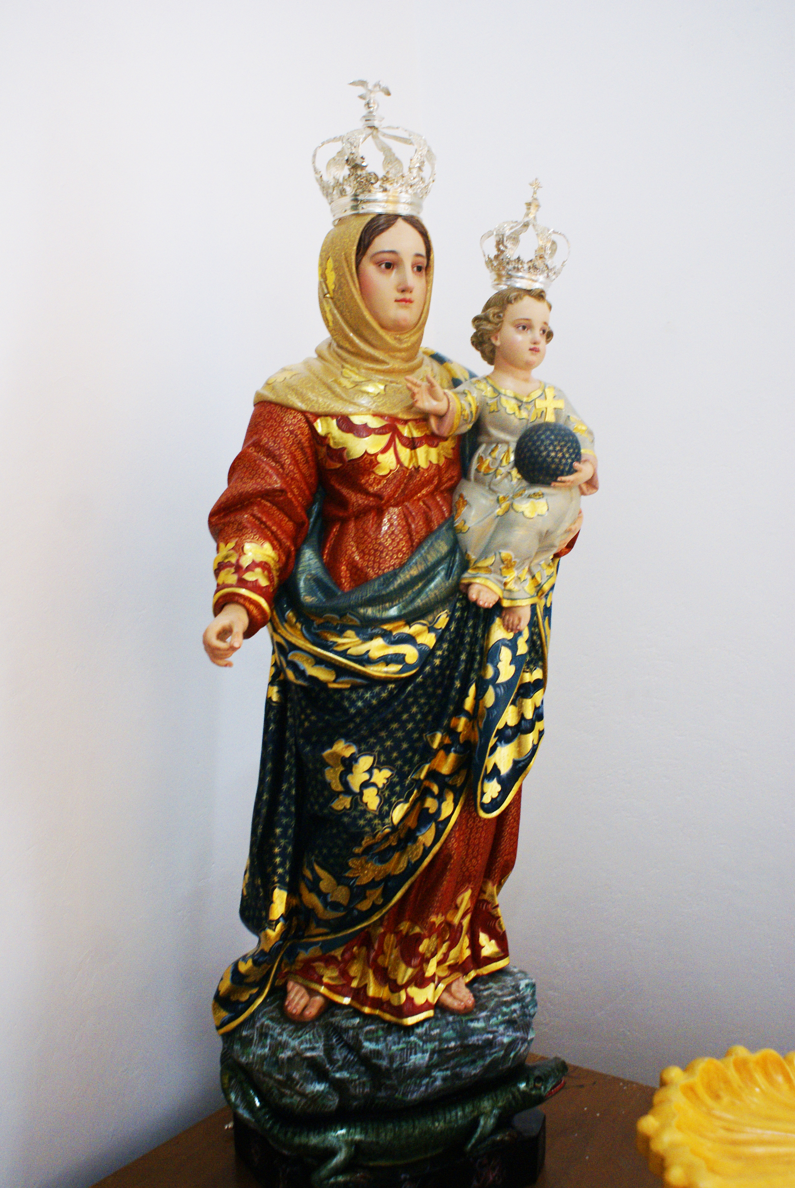 Senhora da Penha de França, Ermida de Nossa Senhora da Penha de França, Praia do Norte, concelho da Horta, ilha do Faial, Açores, Portugal